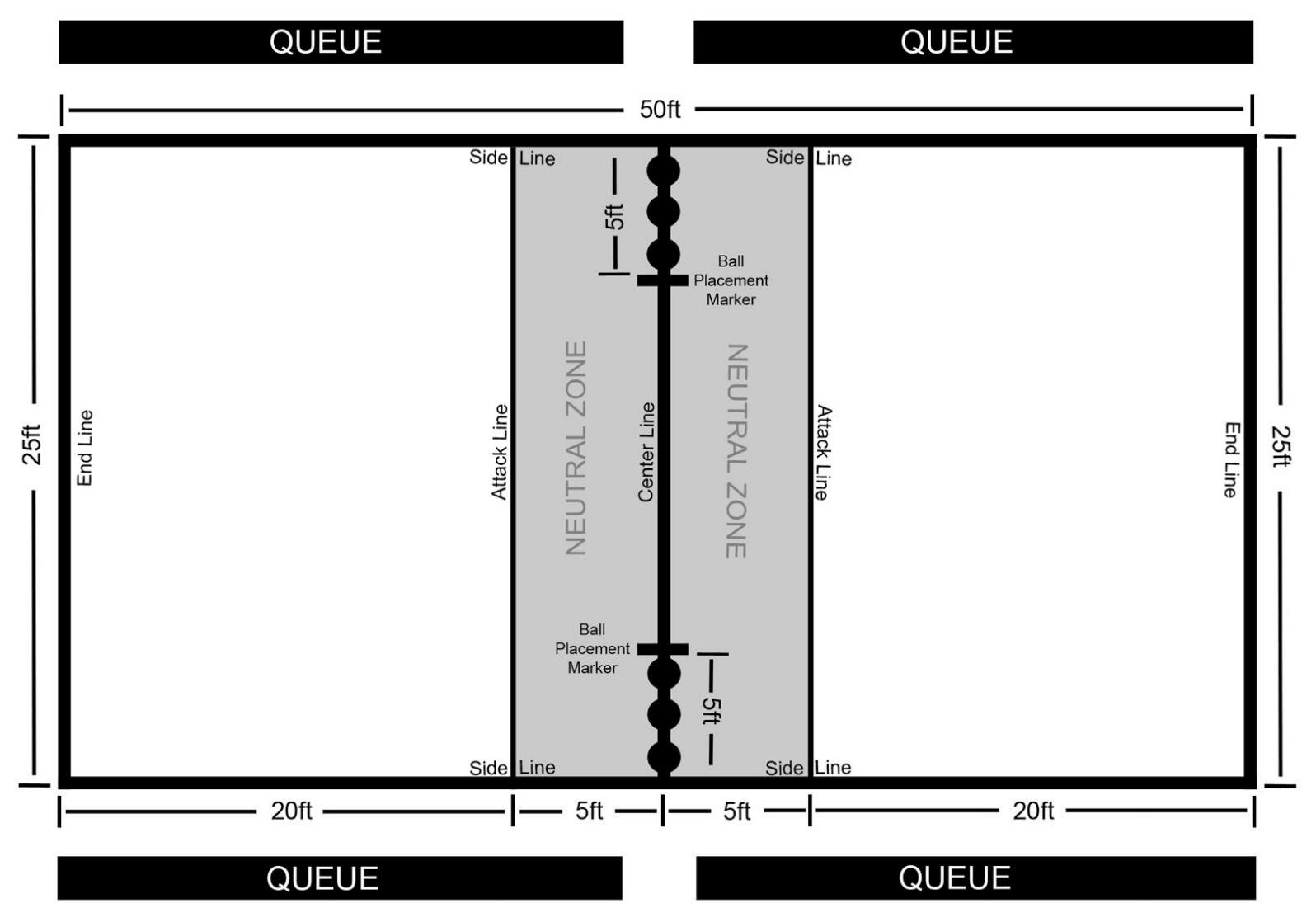 dodgeball